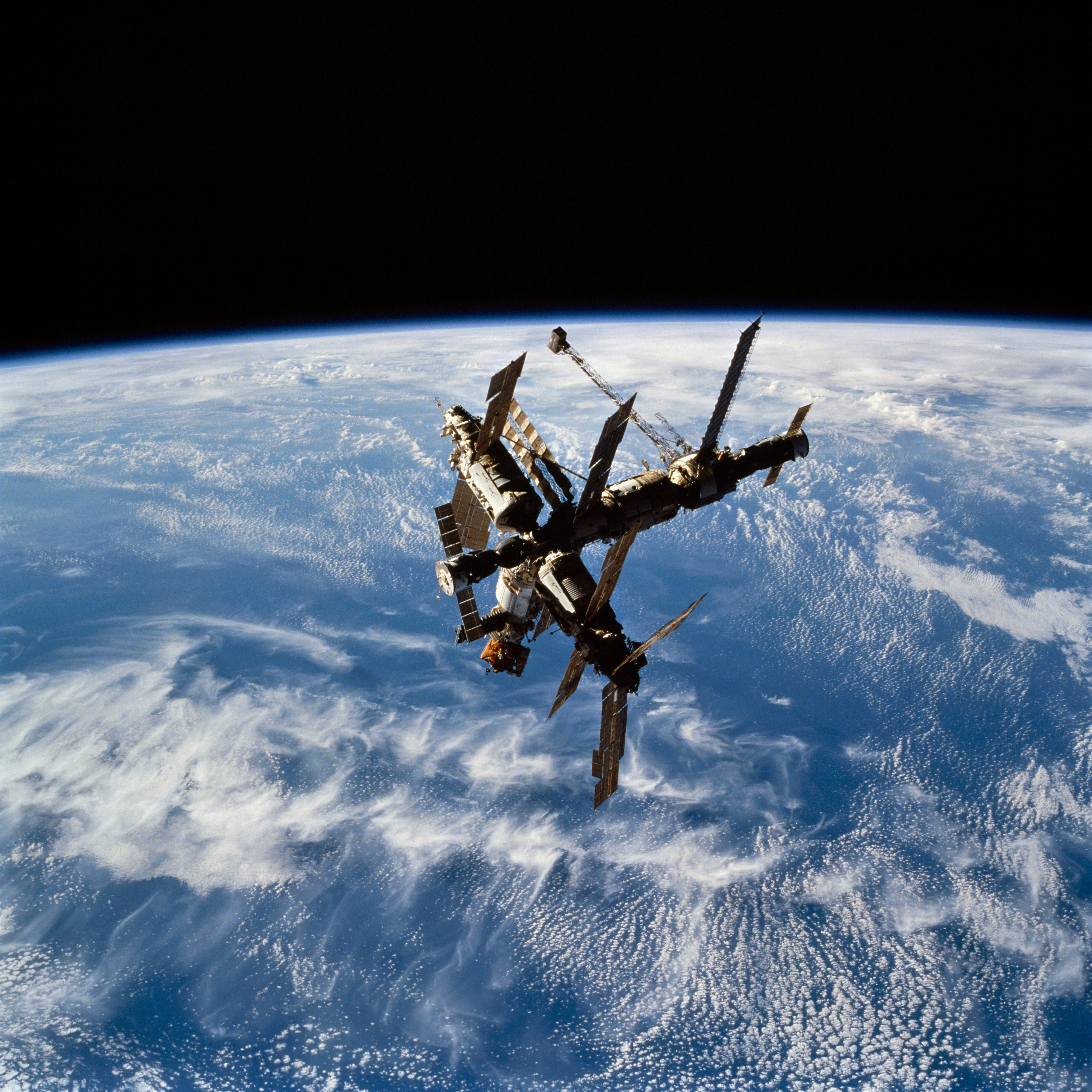 View of the complete Mir Space Station after docking against a dark background (015-9,030), over a portion of the Earth (020-2,026-9), and over Australia (023-5). Identifier: STS074-716-021